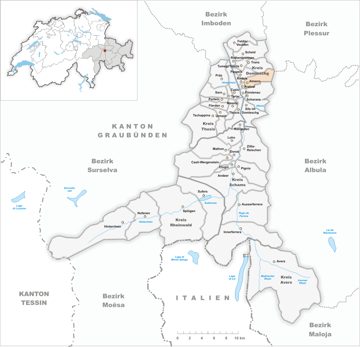 Municipality Almens